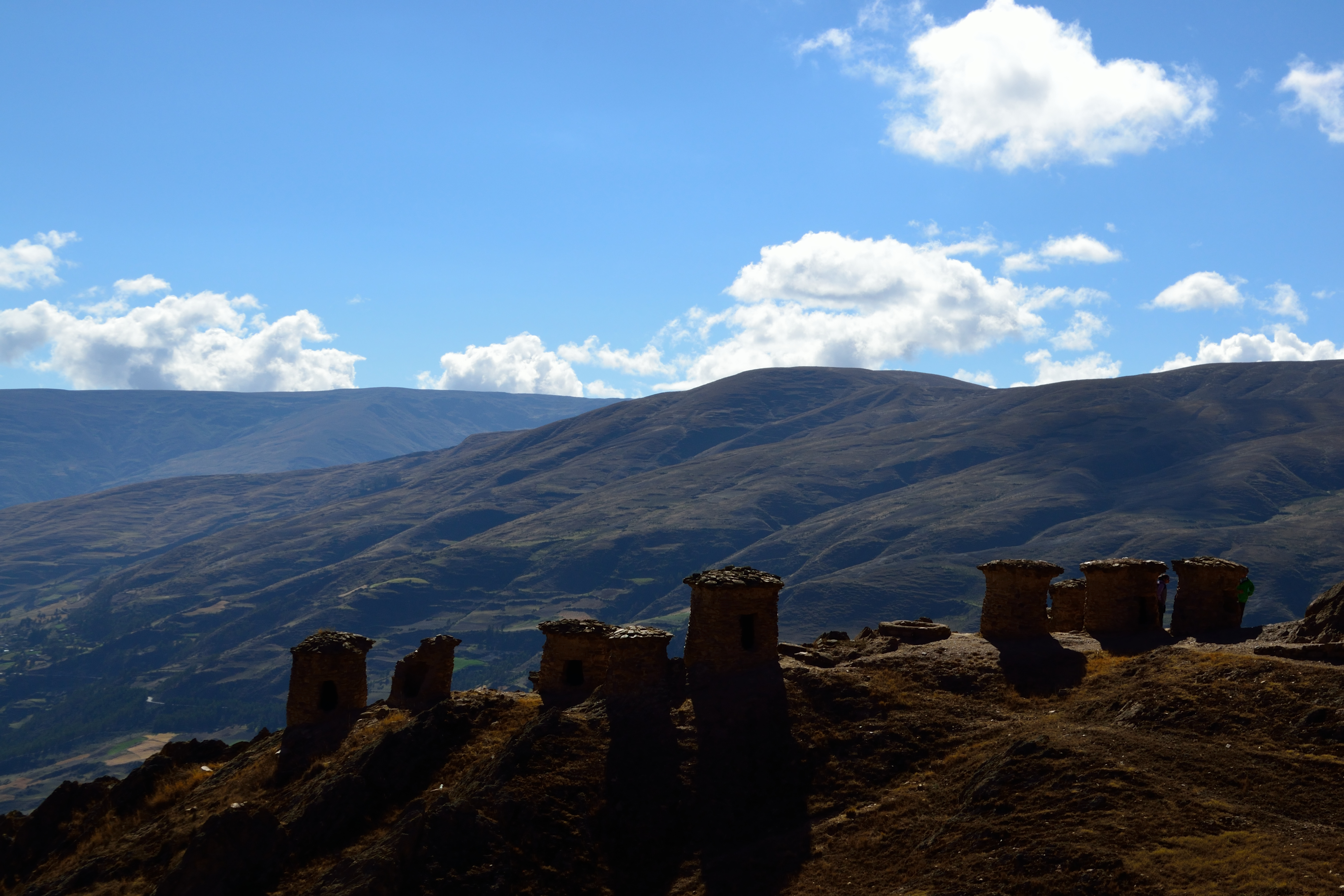 Chullpas, Ninamarca